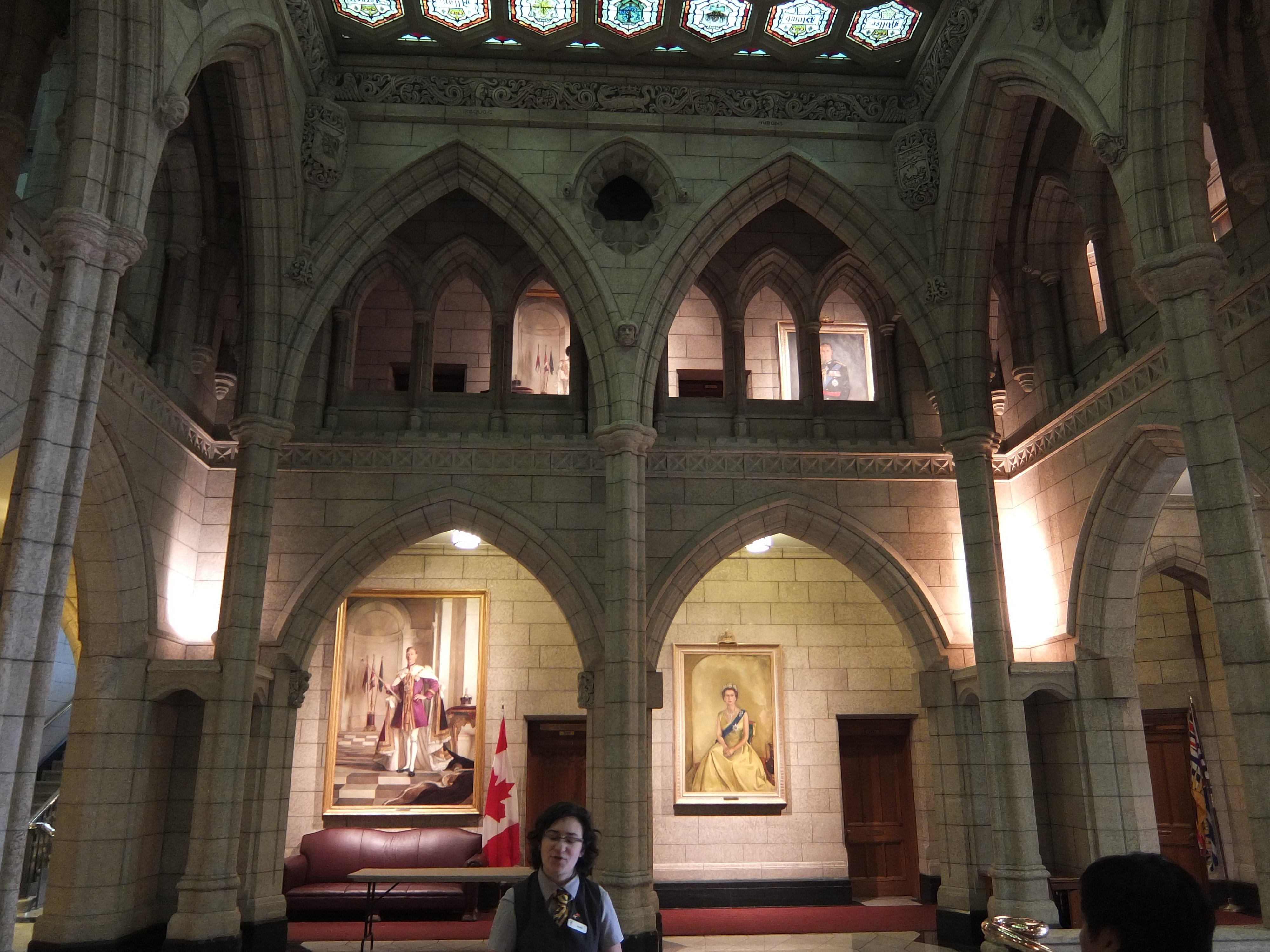 Just before we queued up to get upto the Peace Tower, here is our guide bidding us goodbye. The tour was officially over, and our guide is giving us a couple of options on wha to do next. Leaving was one option, getting up the Peace Tower observation area was another. There was att least one other option which I do not recall now. (Ottawa, Canada, June 2015)